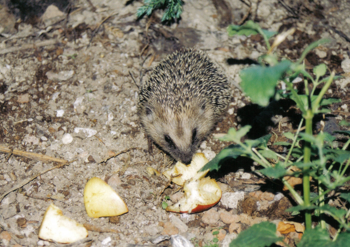 Hedgehog (Erinaceus europaeus), 55294 Bodenheim, Germany